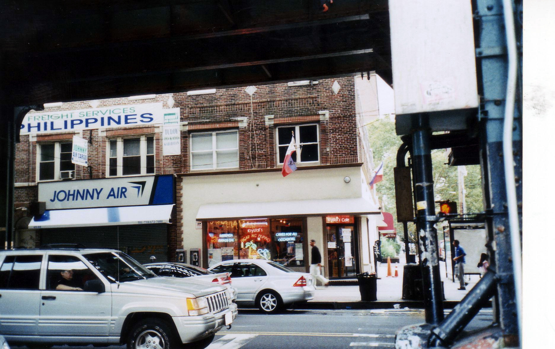 (Original text: Krystal's Cafe (right) and Johnny Air Cargo (left), "Little Manila", Roosevelt Avenue, Woodside, Queens, New York.)